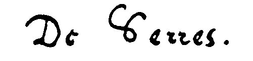 Signature of Jean de Serres, French humanist